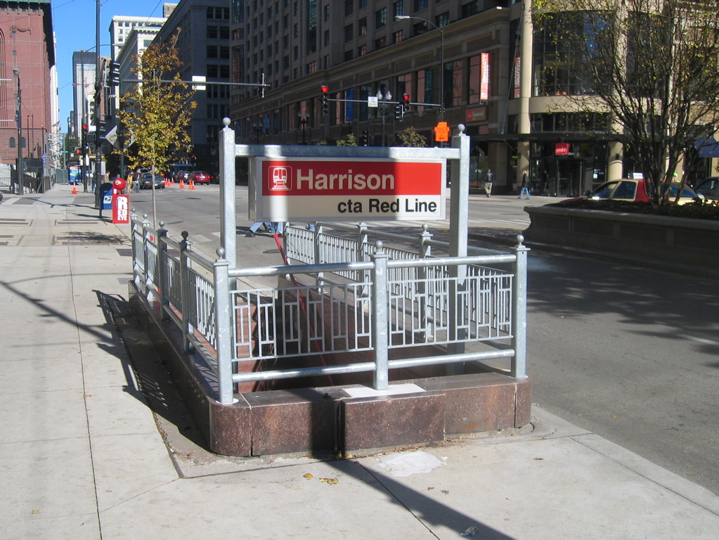 Entrance to Harrison Station on the CTA Red Line, Chicago, Illinois.